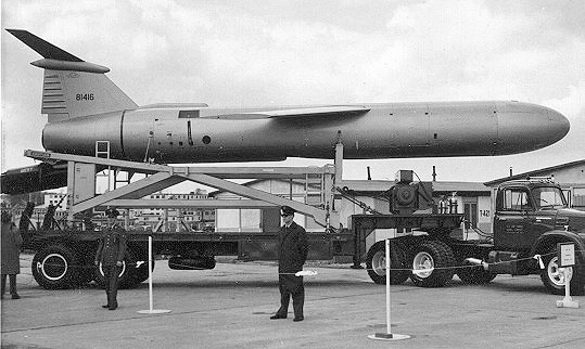 TM-76 Mace of the 71st Tactical Missile Squadron - Bitburg AB, West Germany